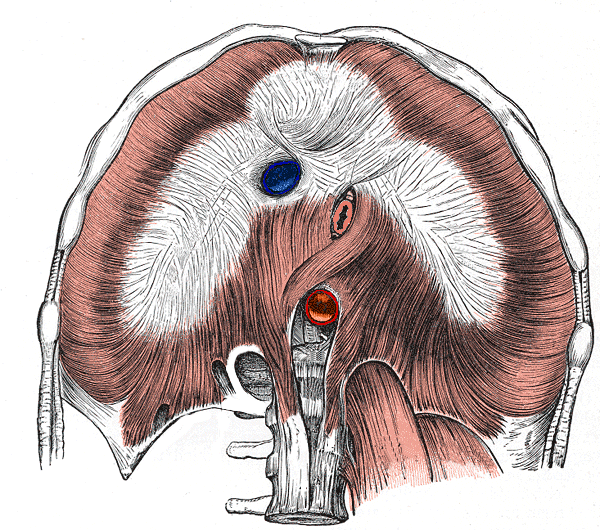 diaphragm without legend